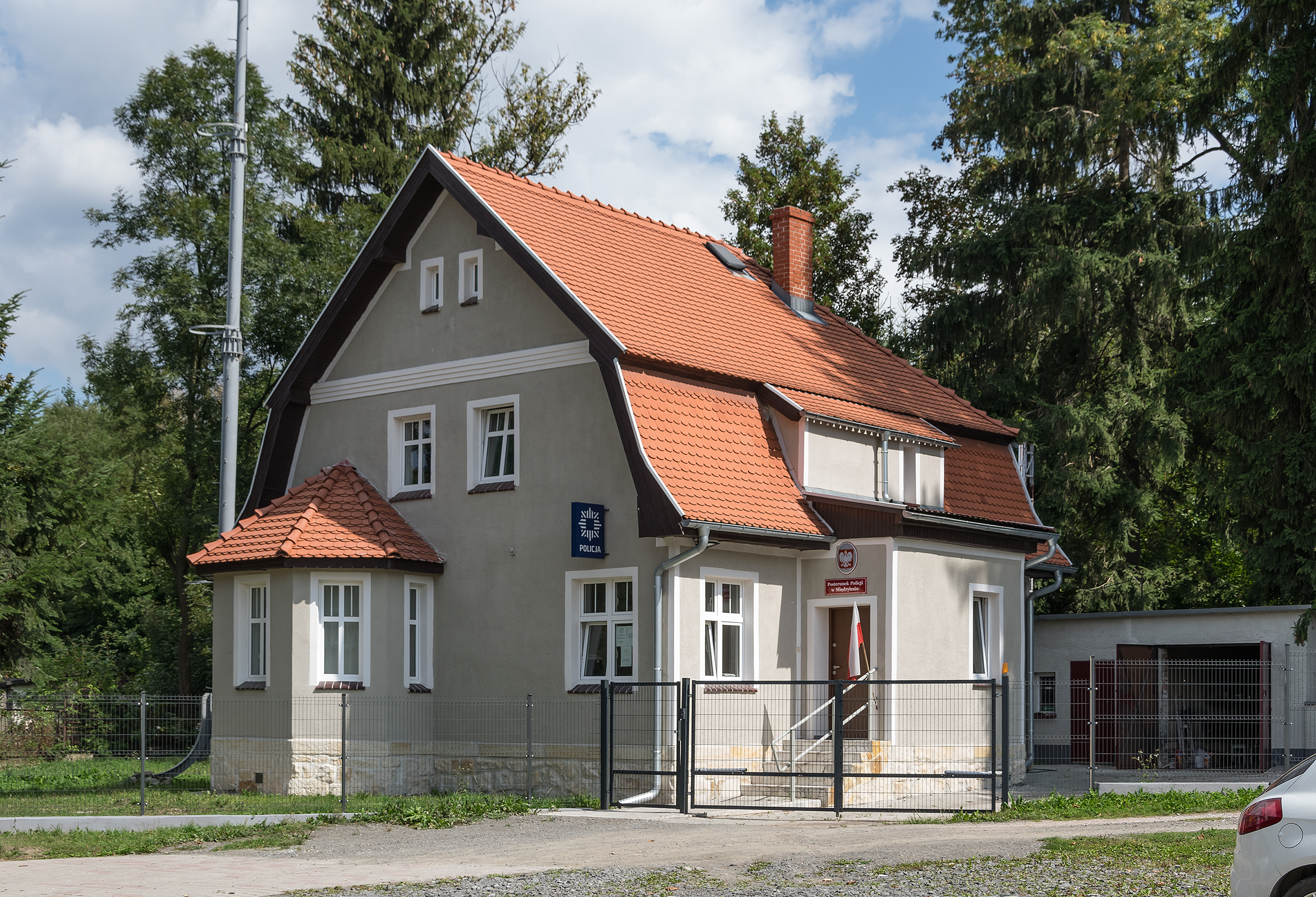 Police Station in Międzylesie